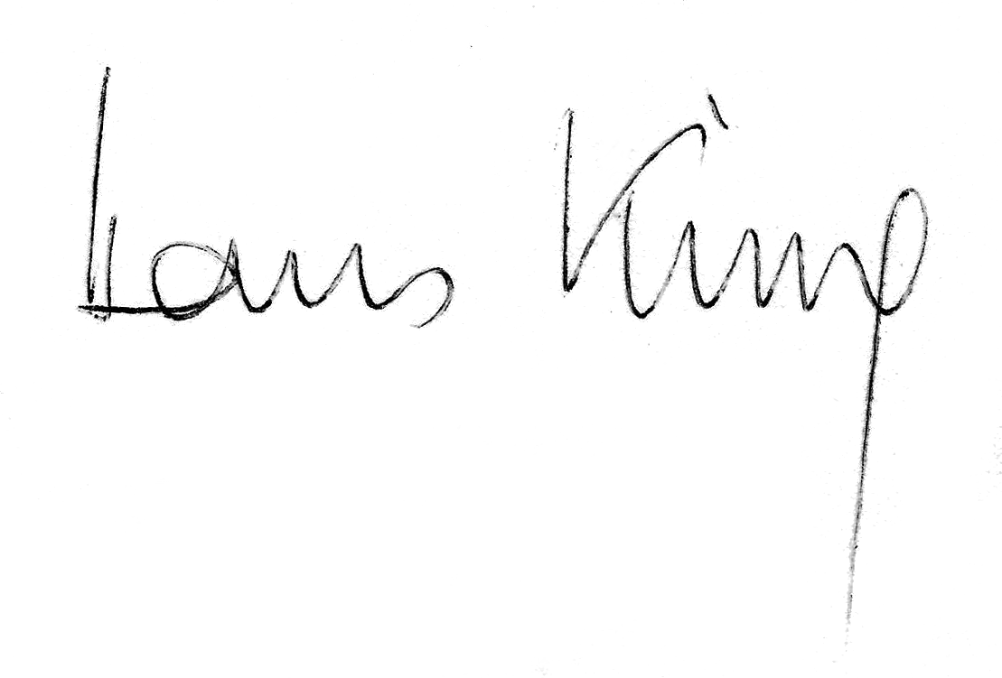 Hans Küng's signature